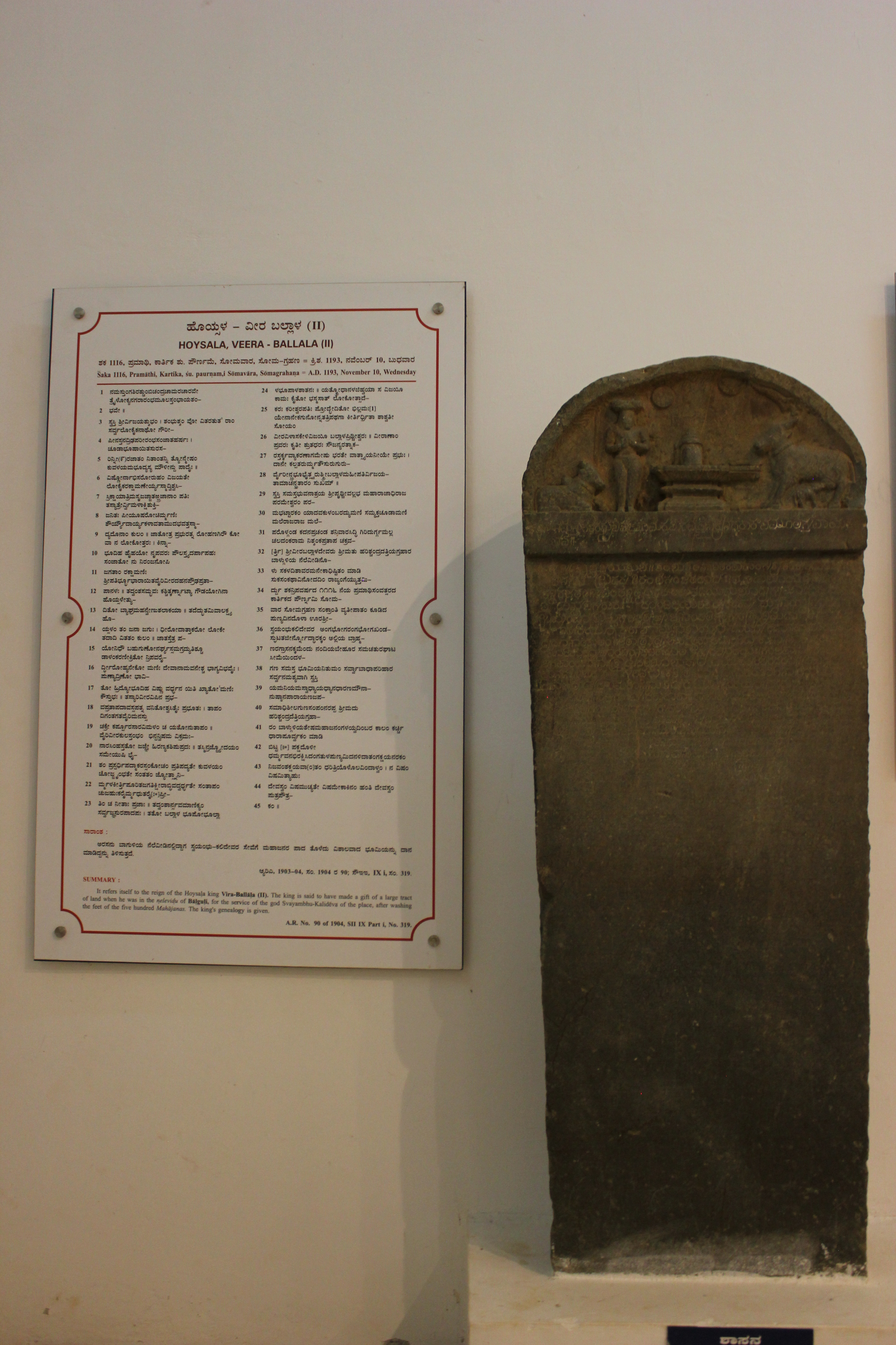 This photograph was taken by me at the ASI museum at Bagali (known as Balgali in ancient inscriptions), Davangere district, Karnataka state, India.